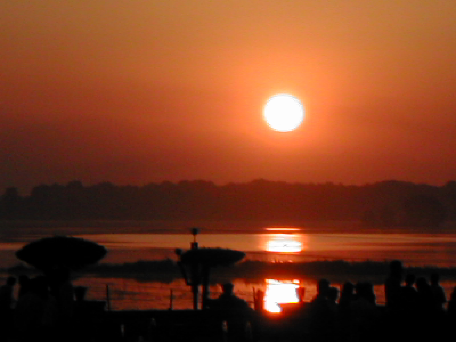 Sunset on Dal Lake, Srinagar.